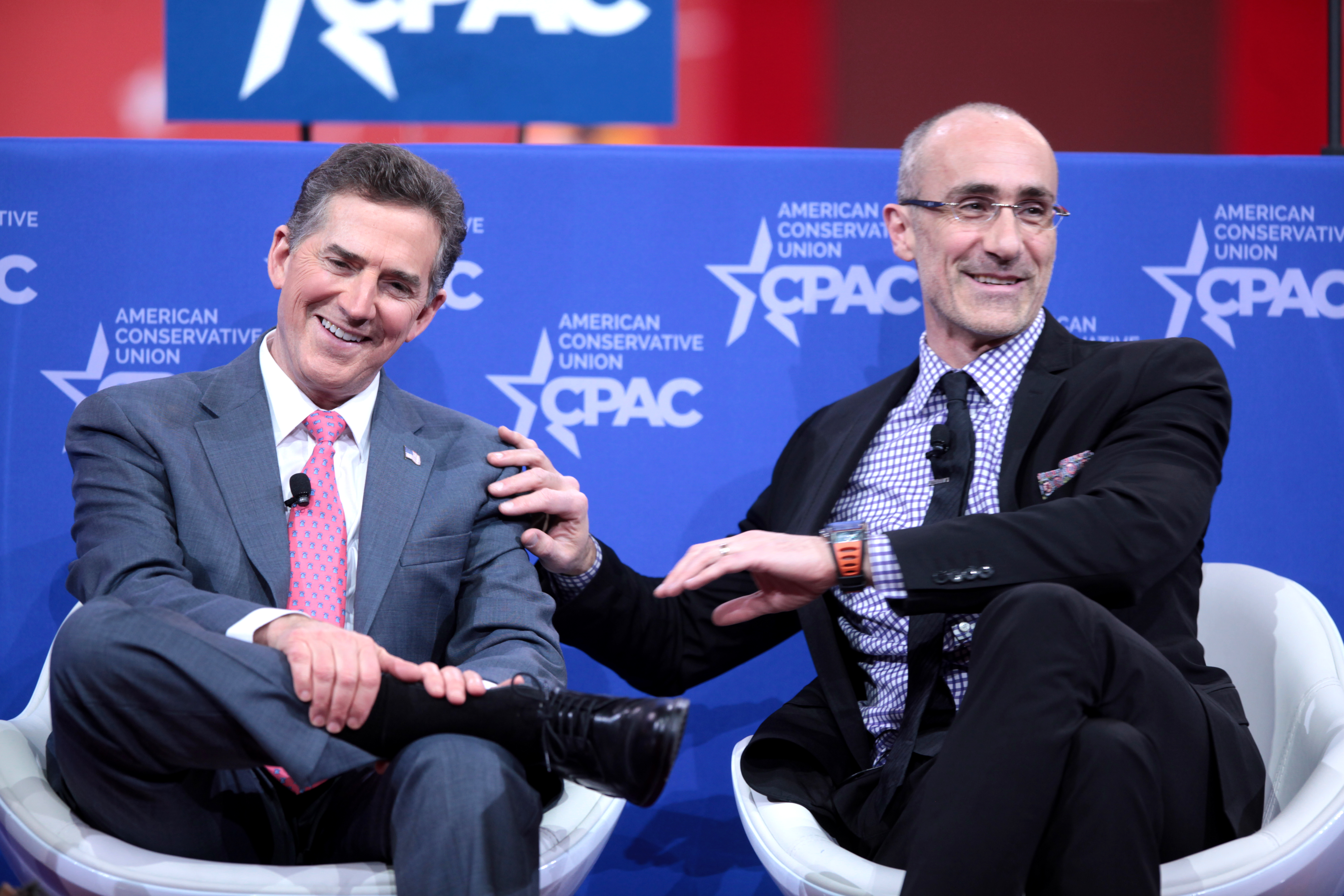 Former U.S. Senator Jim DeMint of South Carolina and Arthur Brooks speaking at the 2015 Conservative Political Action Conference (CPAC) in National Harbor, Maryland.